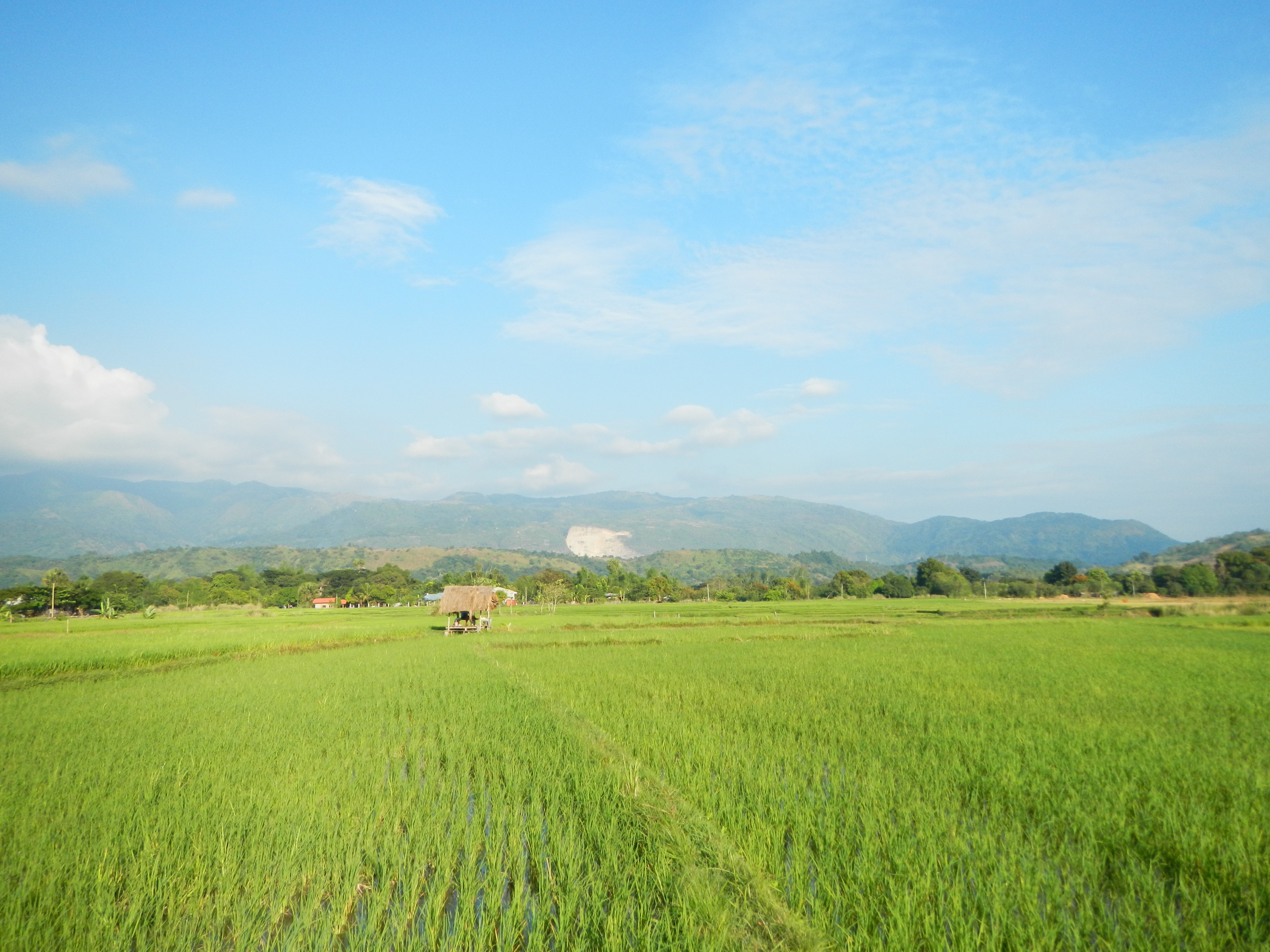 Sison, Pangasinan[1][2]